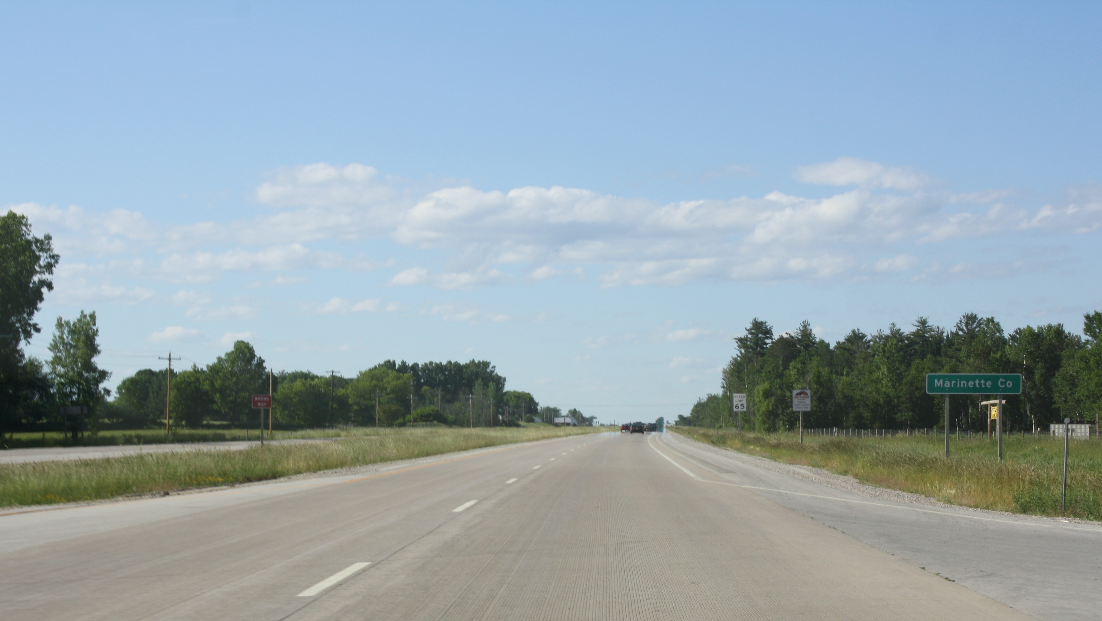 Looking north on U.S. Route 141 while entering Marinette County, Wisconsin.